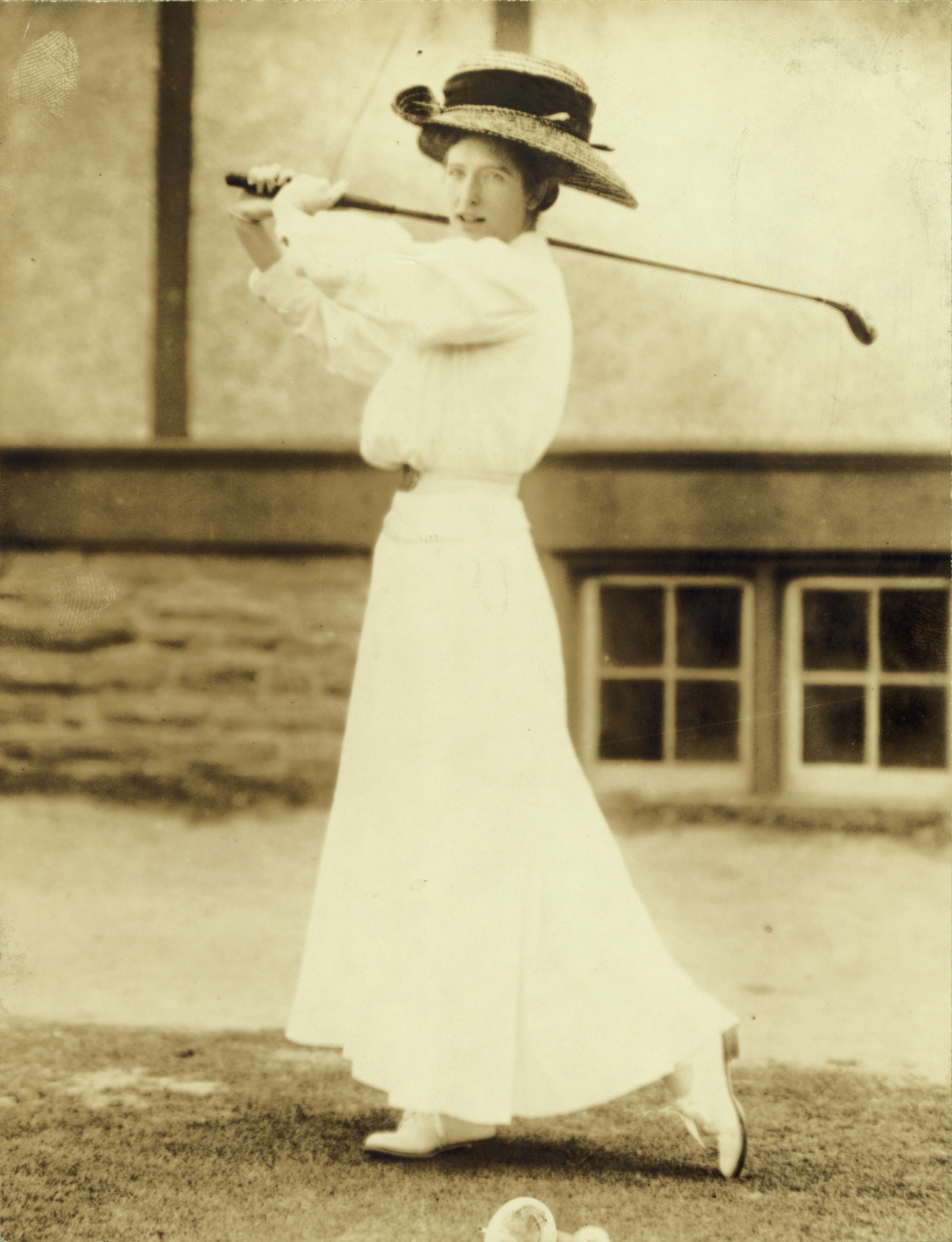 Photograph shows Katherine Harley (Mrs. H. Arnold Jackson), full-length portrait, facing front, swinging a golf club; as Kate C. Harley, she was winner of the U.S. Women's Amateur Golf Championship of the U.S. Golf Association, at the Chevy Chase Club, Chevy Chase, Maryland.